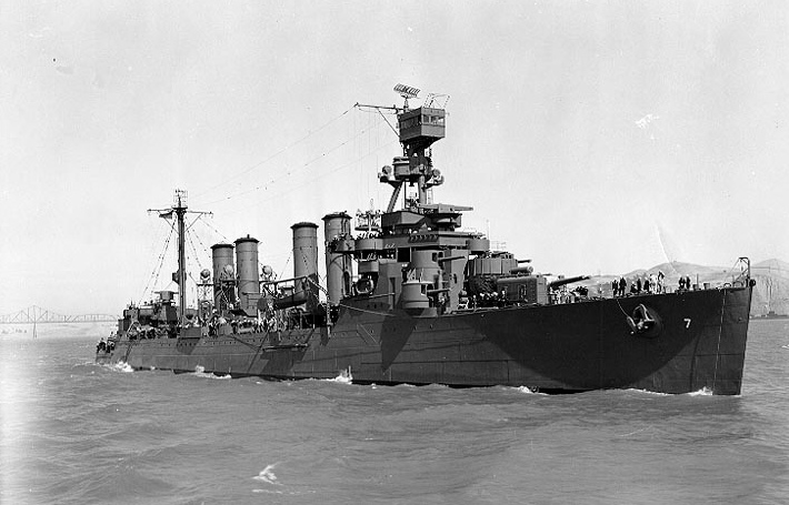 The U.S. Navy light cruiser USS Raleigh (CL-7) off the Mare Island Naval Shipyard, California (USA), 6 July 1942, following repair of combat damage and an overhaul. Photograph from the Bureau of Ships Collection in the U.S. National Archives.